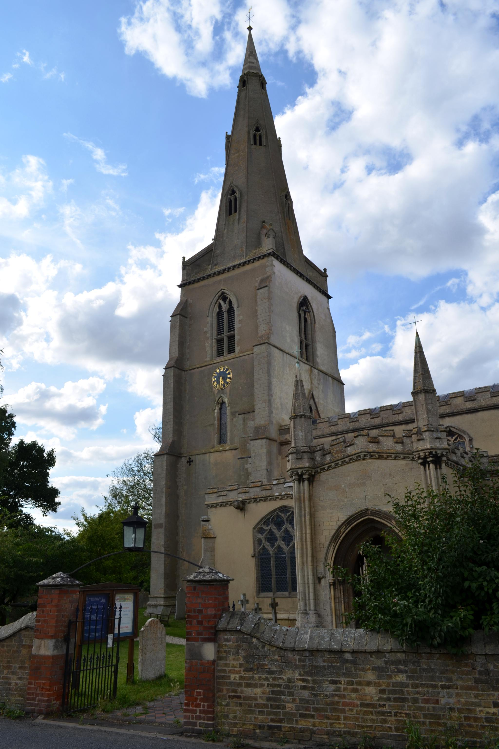 St Mary's Church, Over, Cambridgeshire, England in July 2014.